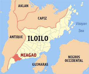 Map of Iloilo showing the location of Miagao